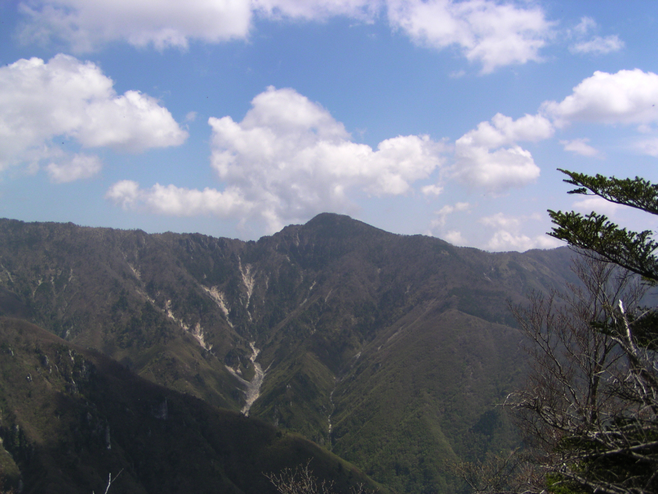 Mount Shakka from the NNW (from Mount Shichimen). Nara Prefecture, Japan.